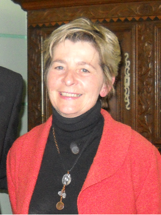 A picture of Marie-Guite Dufay.